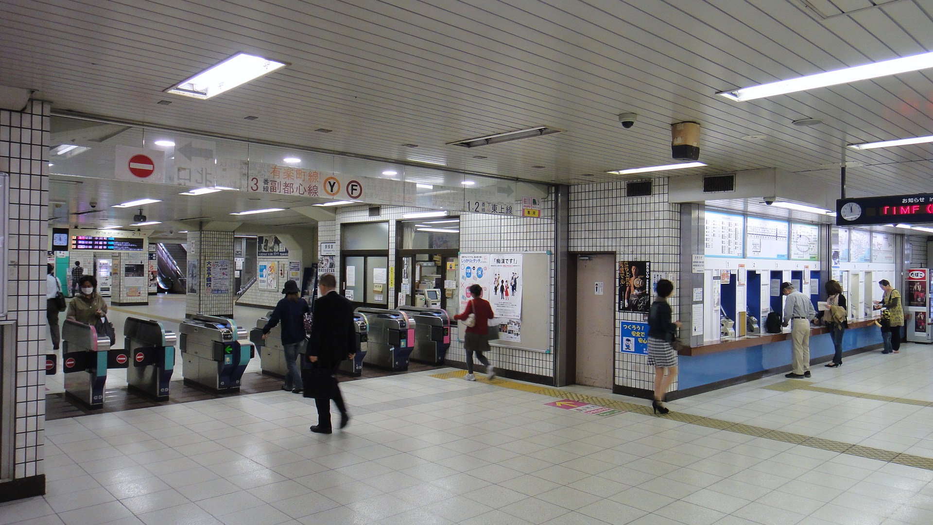 Ticket barriers at Wakoshi Station on the Tobu Tojo Line in Saitama Prefecture, Japan